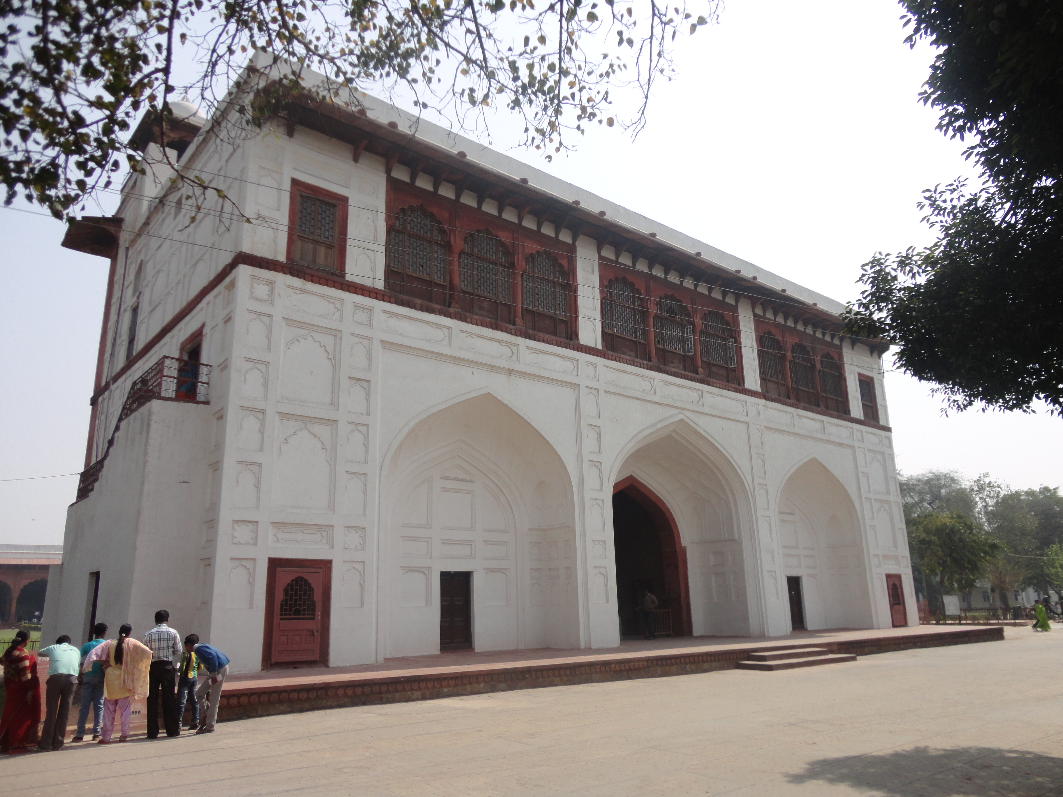 Also known as 'Naqqar Khana', it is a characteristic feature of Mughul architecture. Translated to English, it means 'drum house'- music used to be played from here during the Mughul times. This photo captures the outer side of the three-storey building, which presently houses the Indian War Memorial Museum.